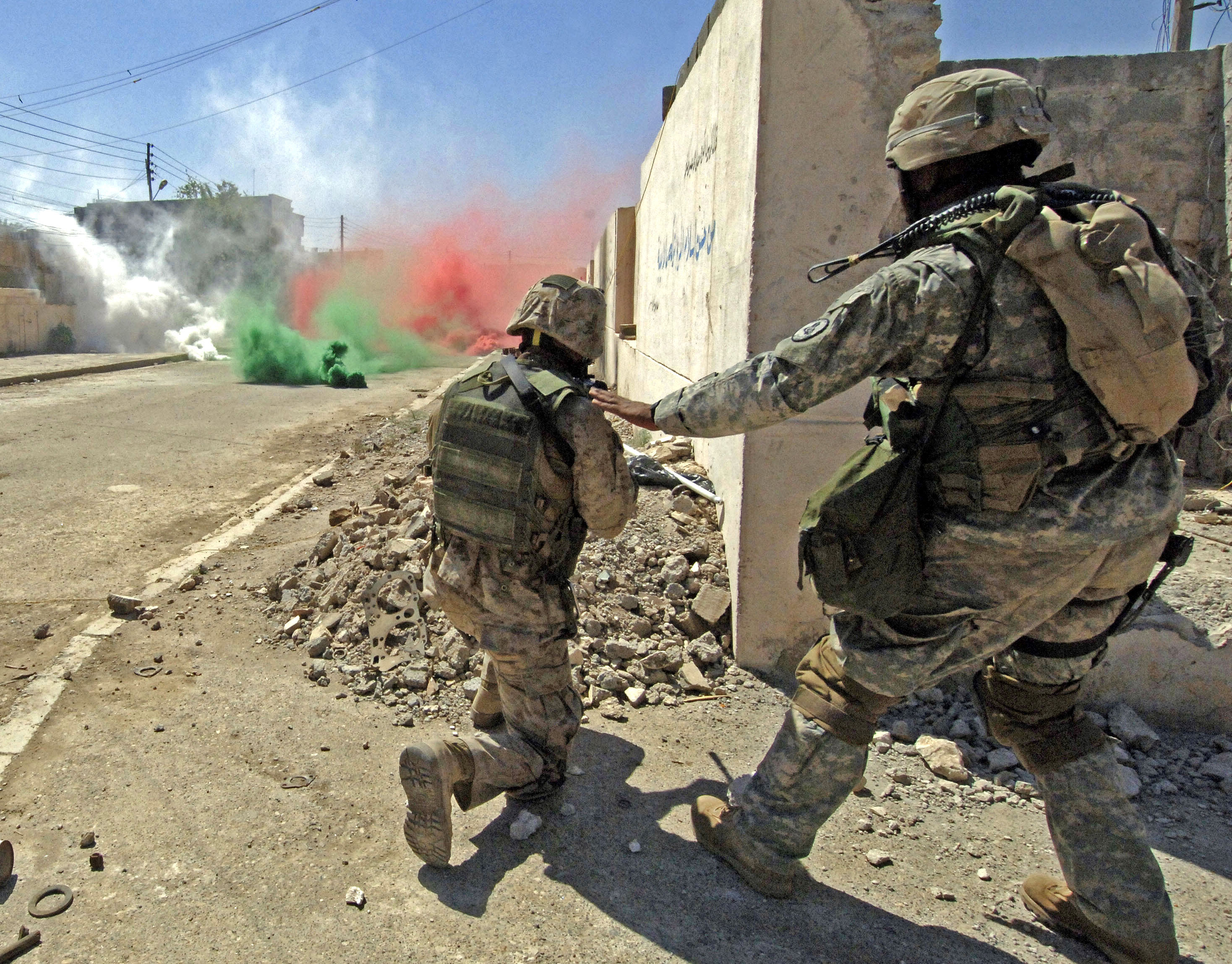 While covering their movements with smoke, a U.S. Army soldier attached to the I Marine Expeditionary Force signals a marine to cross a street during a firefight with insurgents in Ramadi, Iraq.